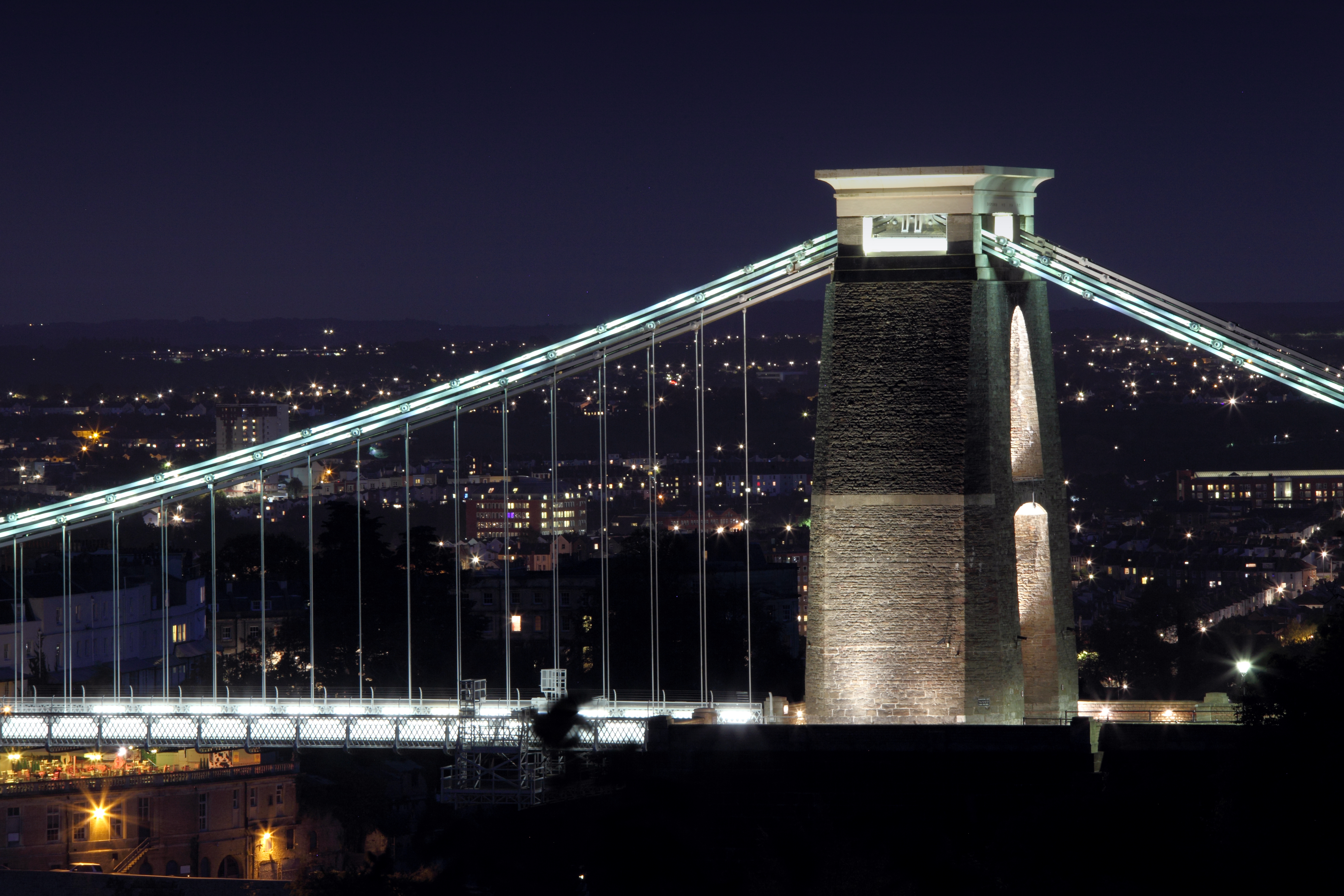 The spot where I took this is a ten-minute walk from the road and it took a bit longer than that in pitch darkness. Even with a torch, it's quite difficult to find the right path. Luckily I found my way out in the end.